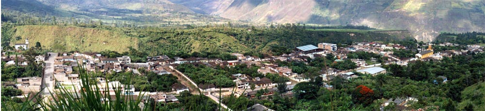 Panoramic view of the town Consaca in Nariño - Colombia